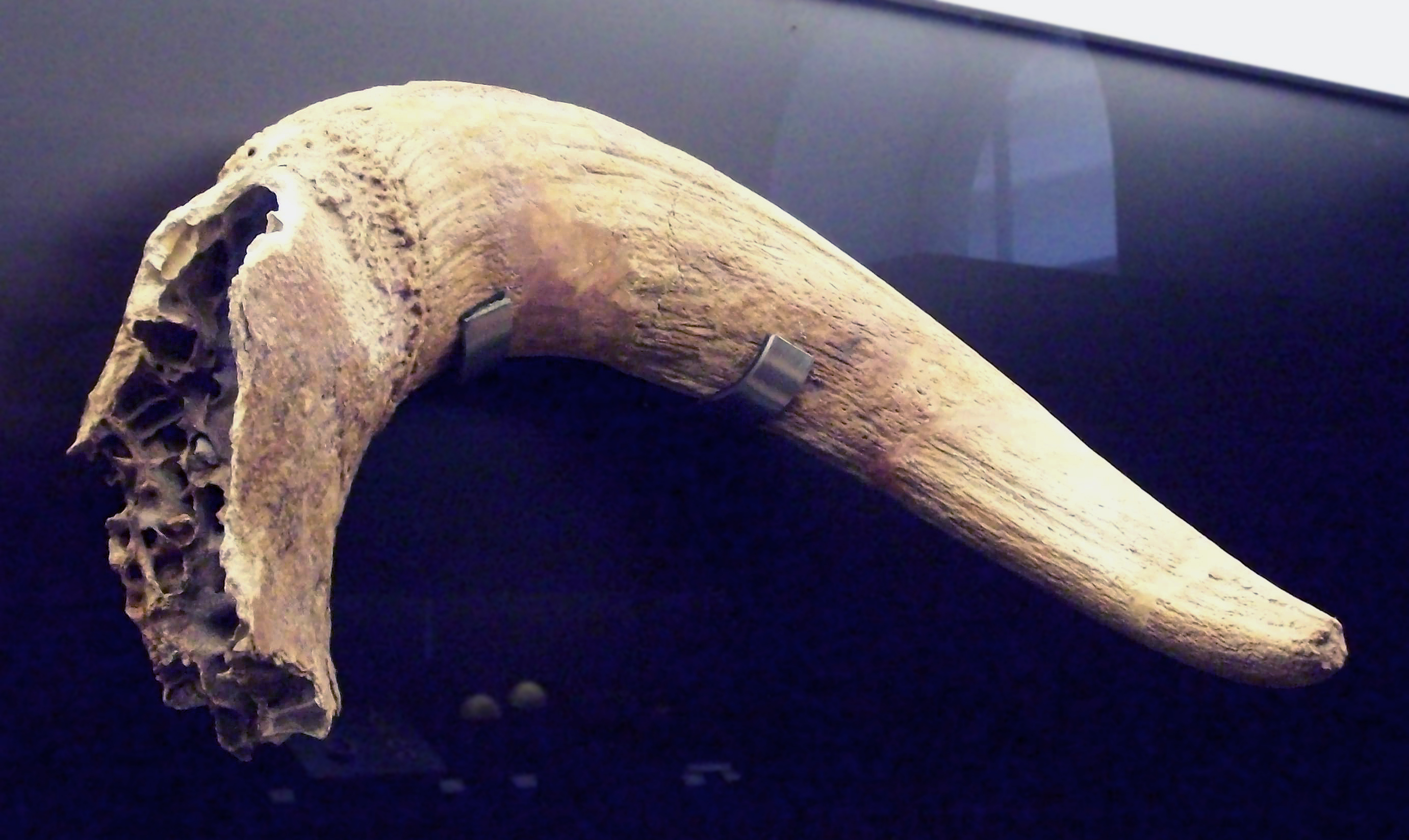 A bos primigenius horn from the Acheulean Period.